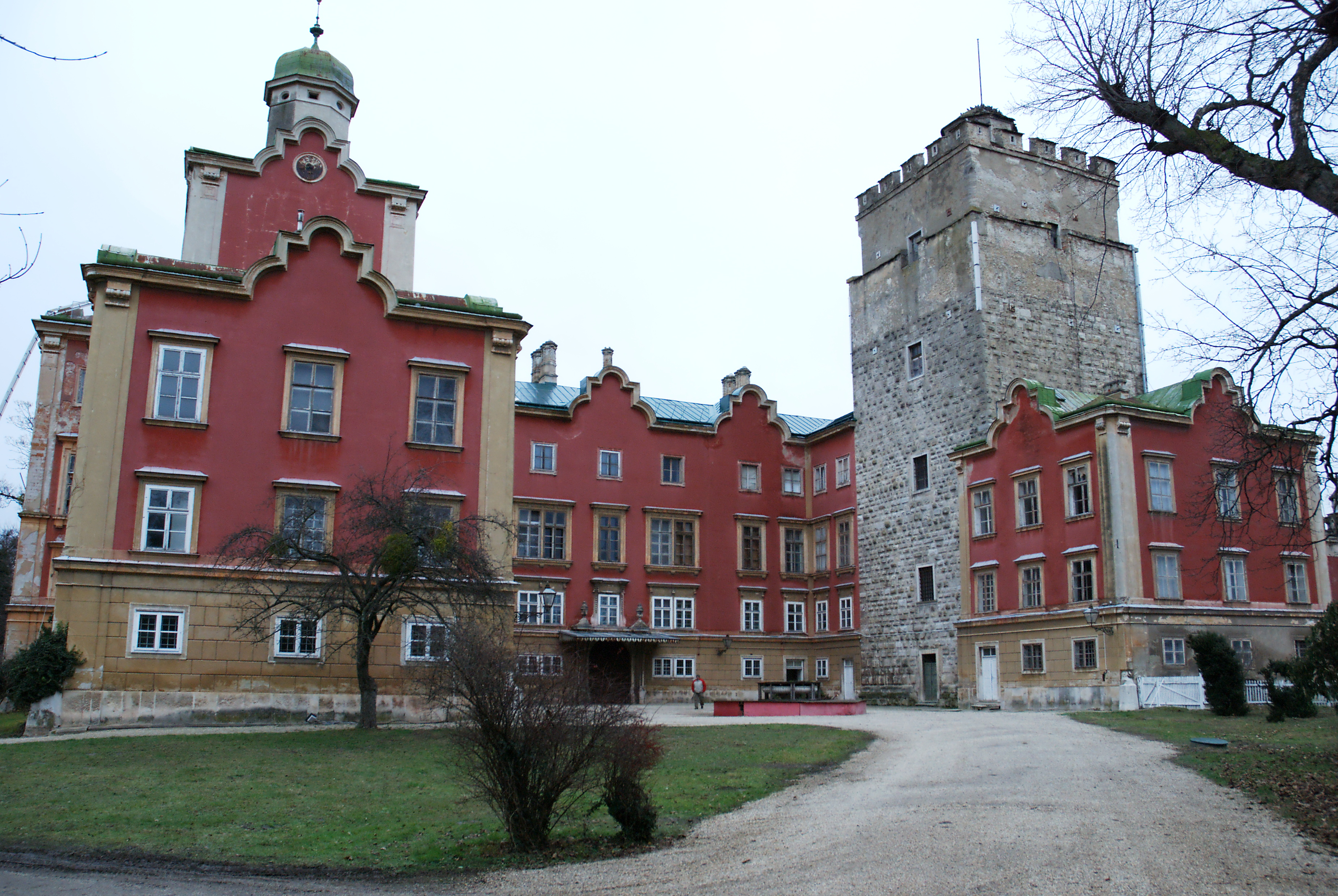 Frontside of Schloss Prugg in Bruck an der Leitha, Austria.